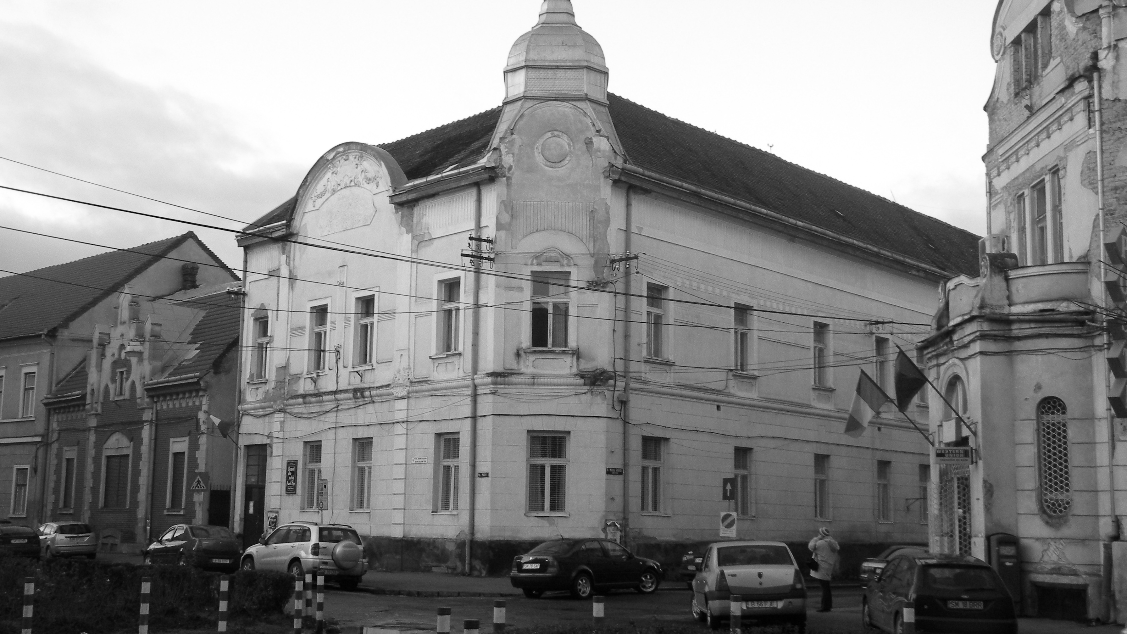 The late reformed finishing-school, Satu Mare/Szatmárnémeti/Sathmar (today: Aurel Popp Art-school)